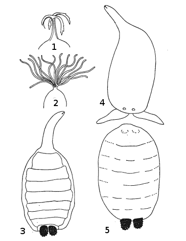 Immature stages of Conopidae, 1 : Sicus, micropylar structure of egg; 2 : Physocephala, idem; 3 : Physocephala, third instar larva; 4 : Zodion, third instar larva; 5 : Physocephala puparium.